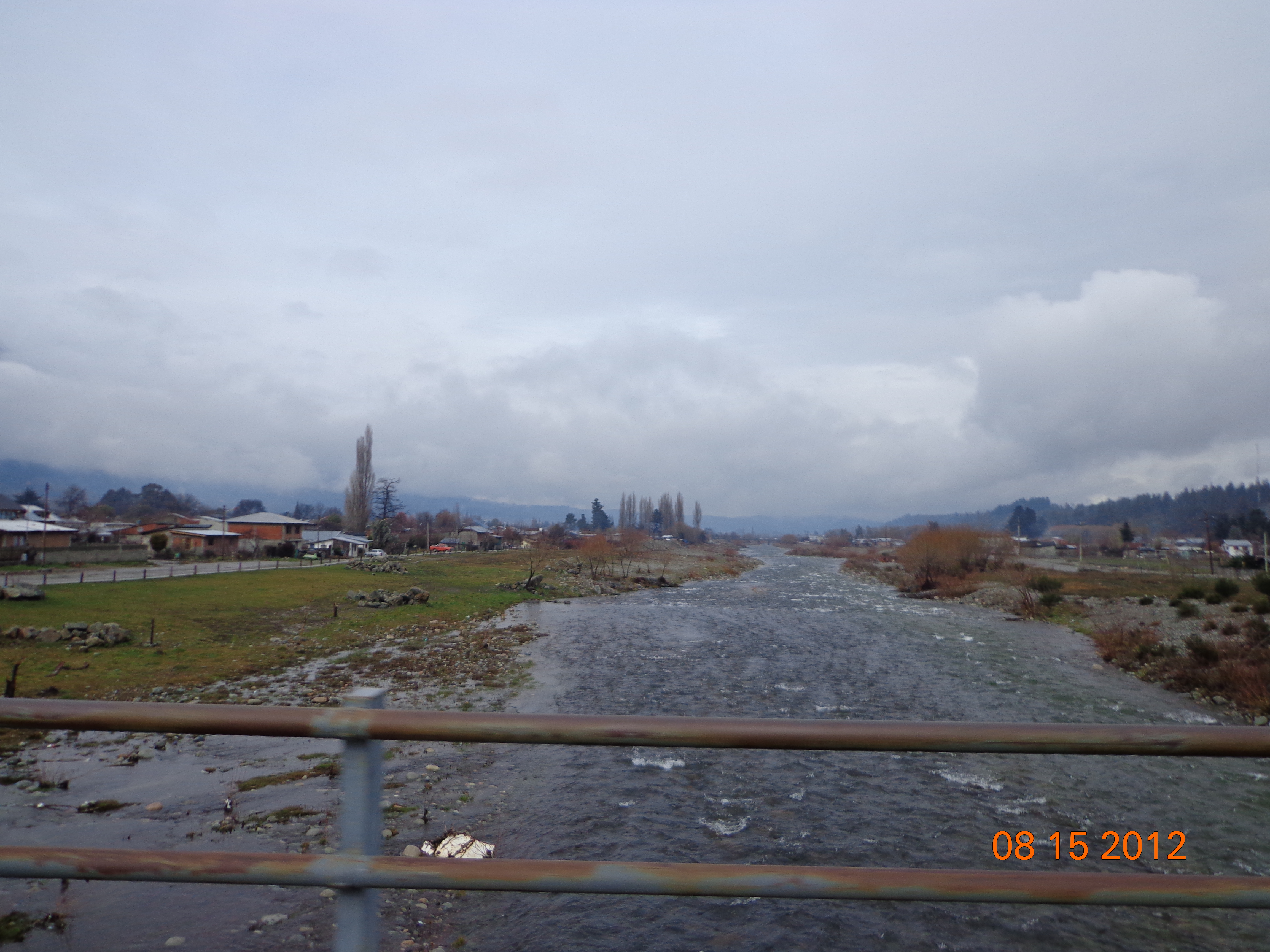 Río Quemquemtreu, El Bolsón, Río Negro, Argentina.